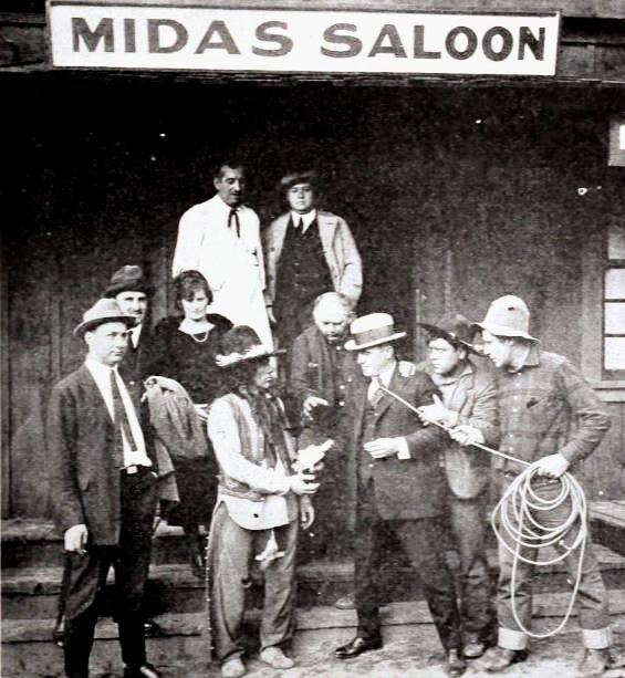 Wilford Fawcett aka "Captain Billy", publisher of Capt. Billy's Whiz Bang, at center with rope around him, during a visit to the Universal Studios in Hollywood, California, with several supporting actors from an Art Acord film then in production and in back a representative from Exhibitors Herald and a movie bartender, on page 57 of the December 10, 1921 Exhibitors Herald. Fawcett later founded Fawcett Publications.